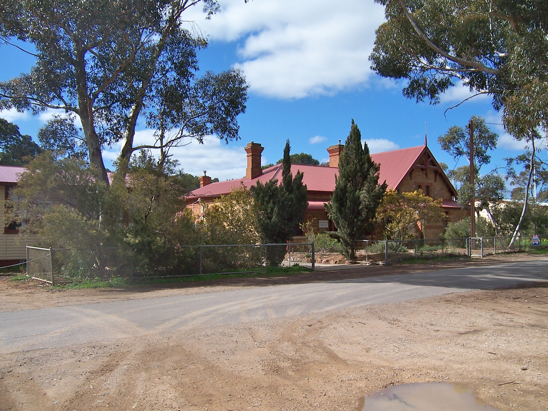 Callington Primary School Australia August 2008